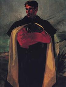 Portrait of General José Florencio Jiménez